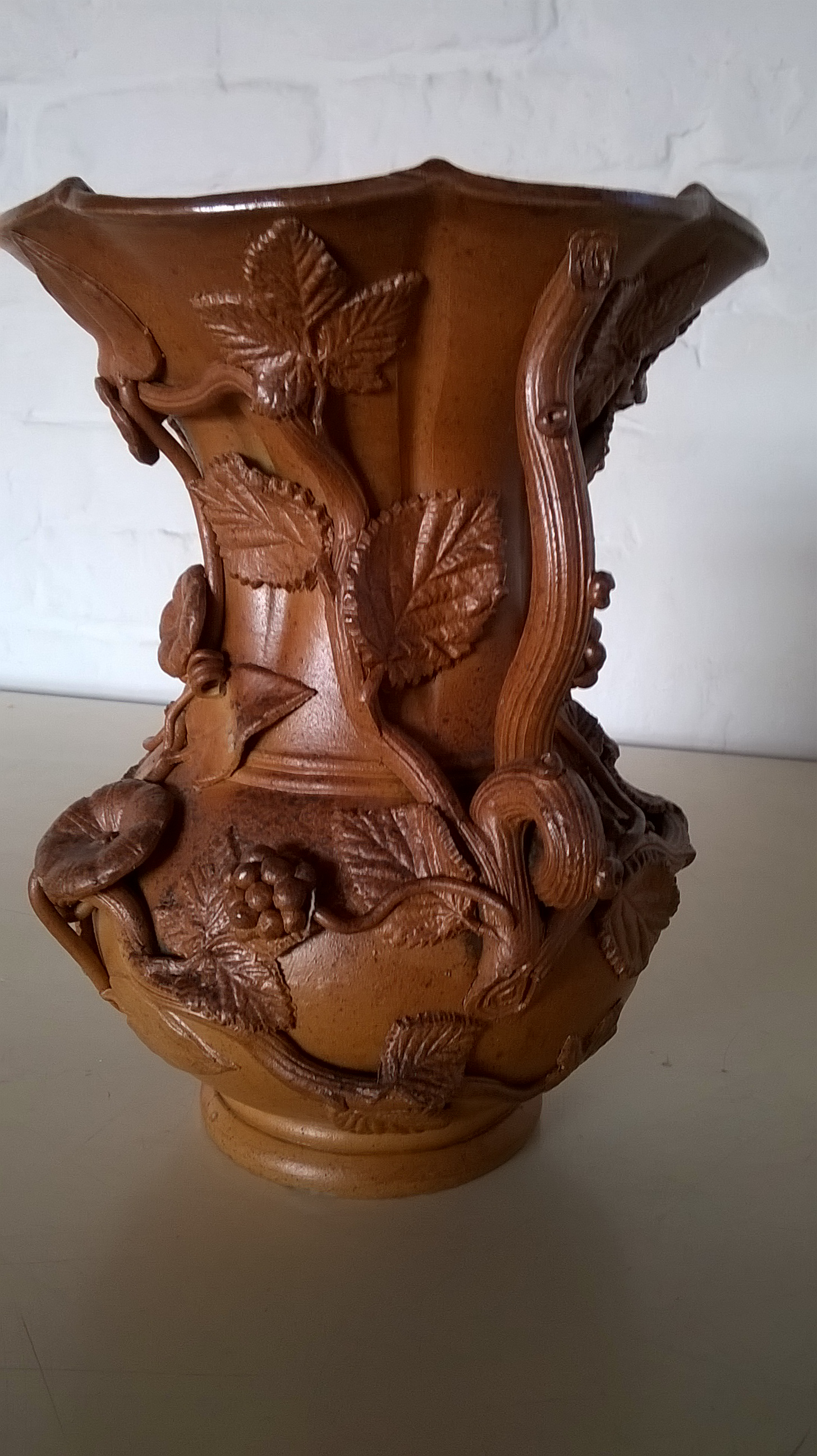 Stoneware vase from Jules Ziegler, ca 1840